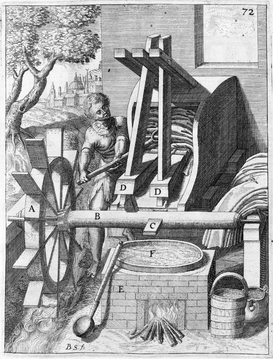 Engraving of a fulling mill from Theatrum Machinarum Novum (Theatre of New Machines) by